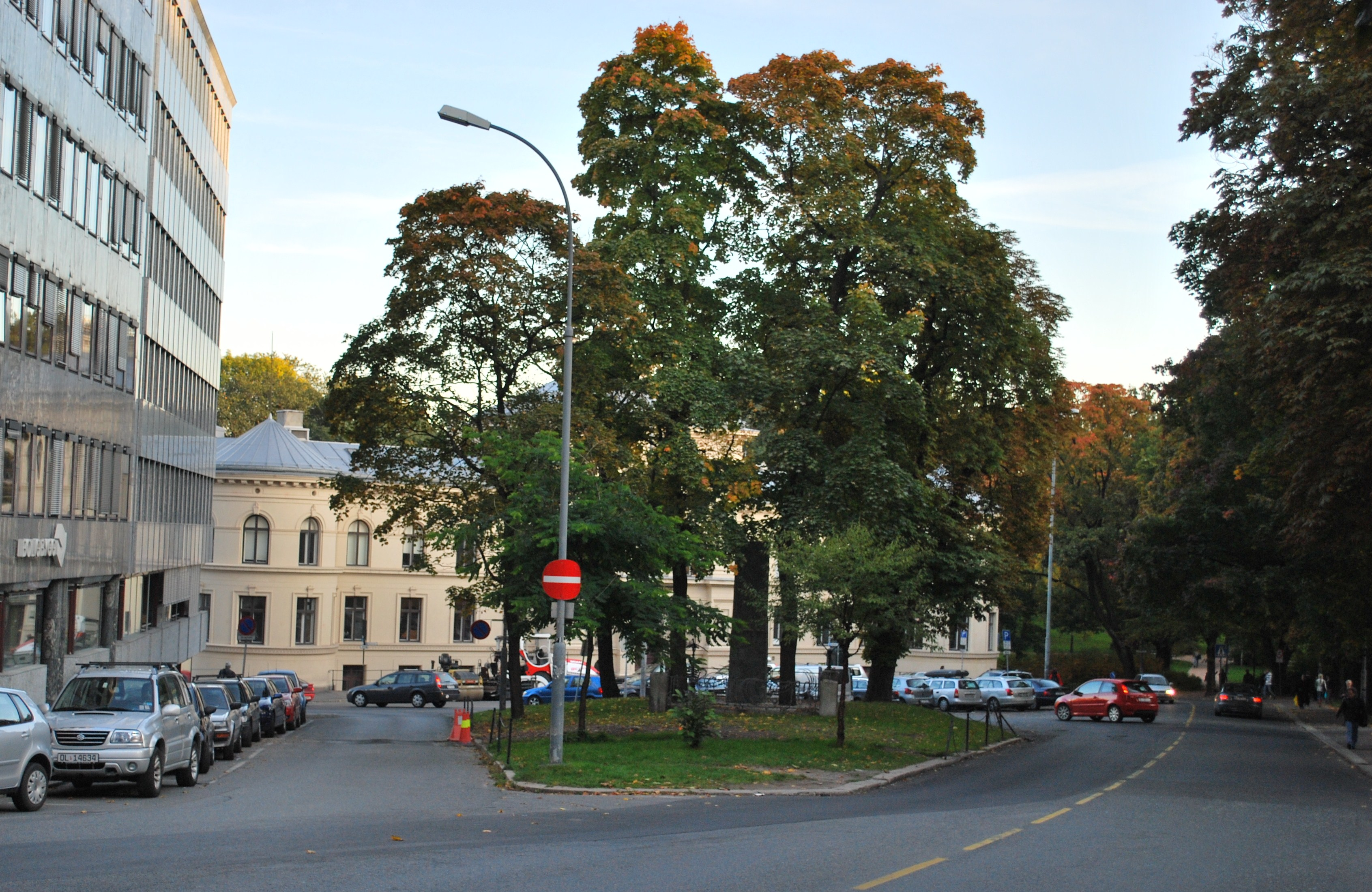 Nordraaks plass (square), Oslo, named after Norwegian composer Rikard Nordraak